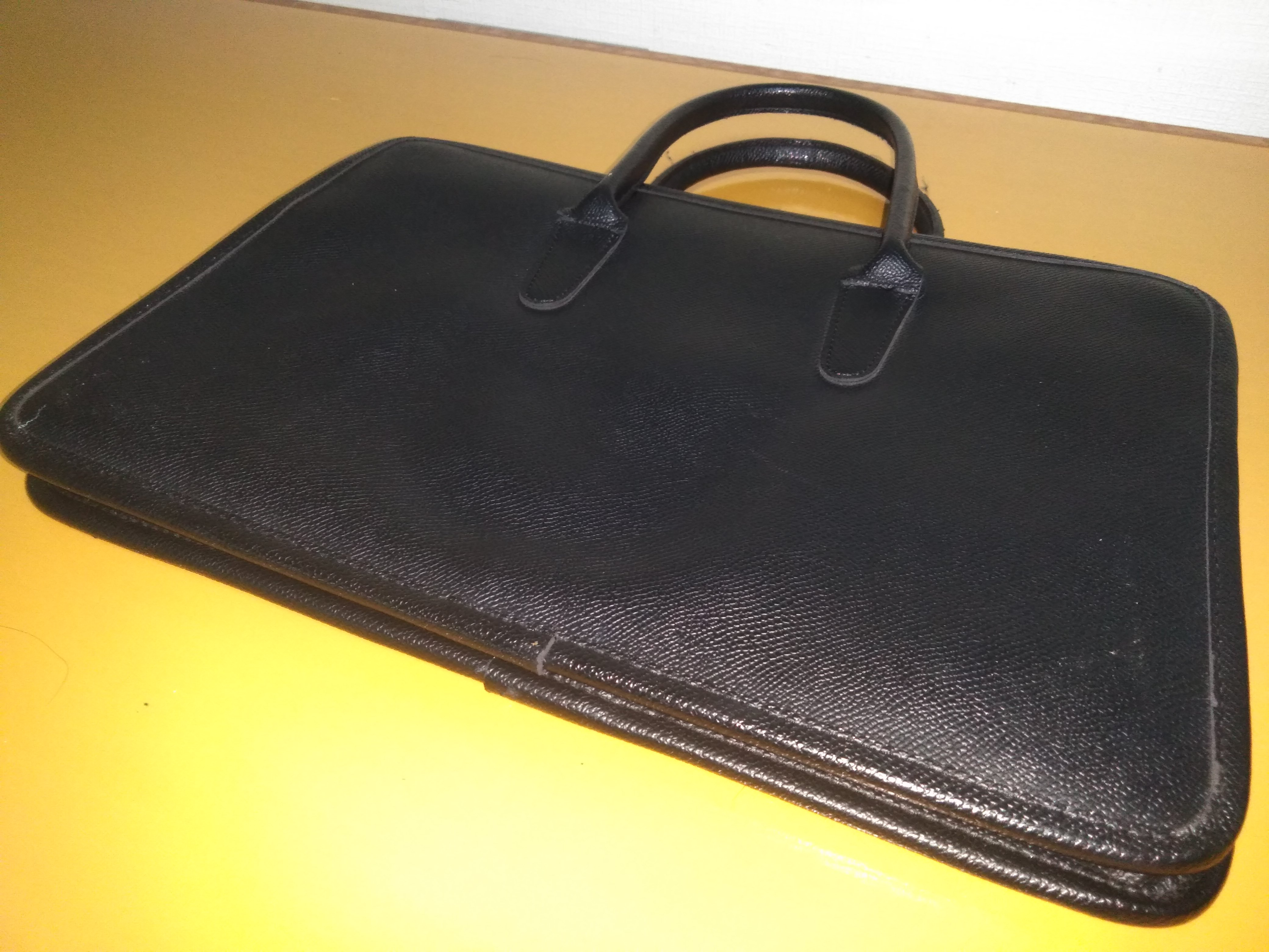 A thin bag once used by bad students.